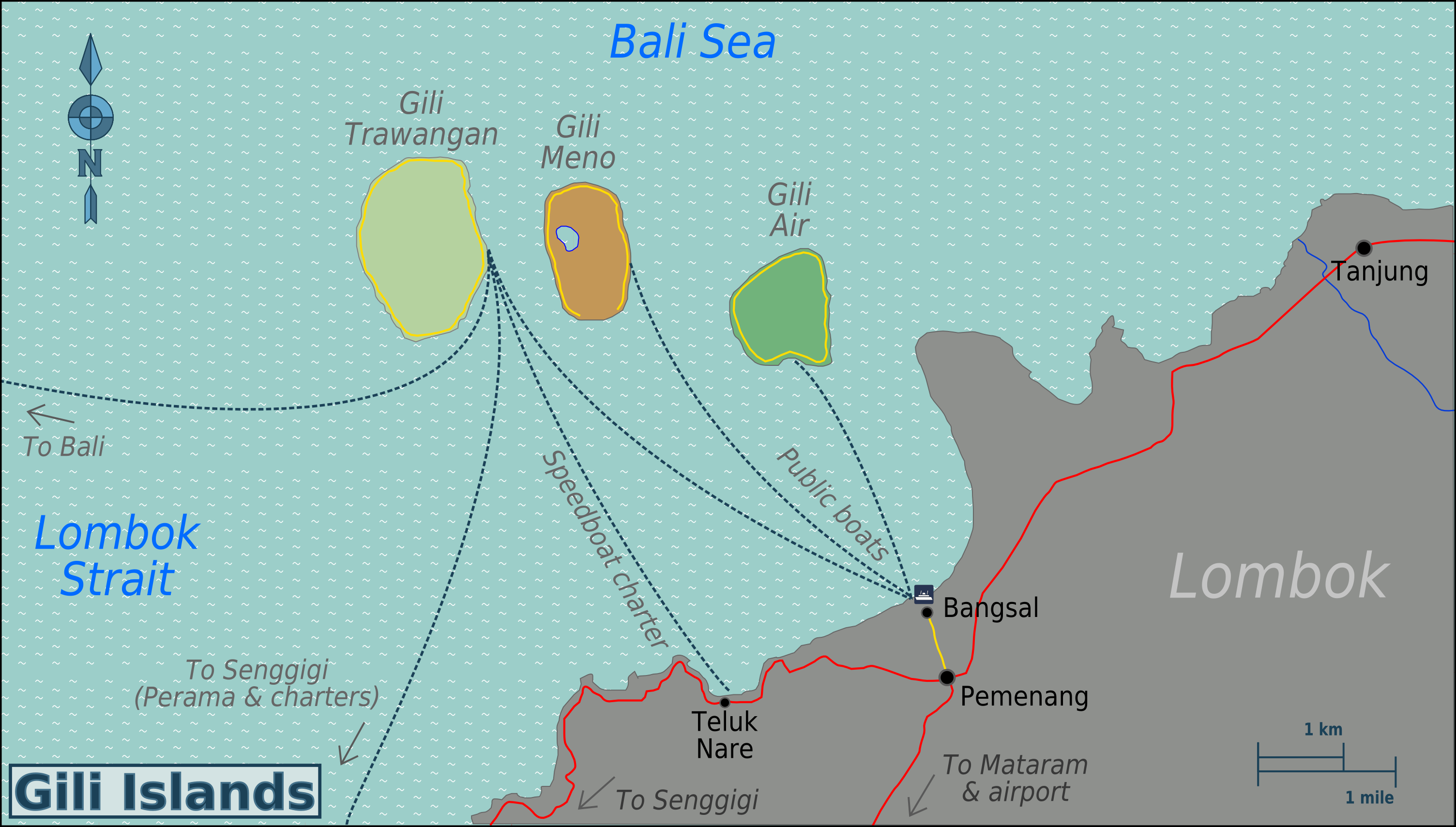 Map of the Gili Islands region, Lombok. SVG, Lombok Map of: Lombok¤.